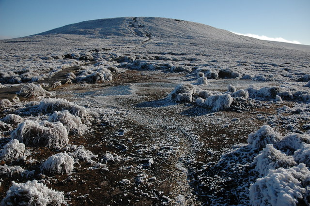 A frozen landscape near Hay Bluff Hoar frost provides a winter scene near Llech y lladron to the south of Hay Bluff.